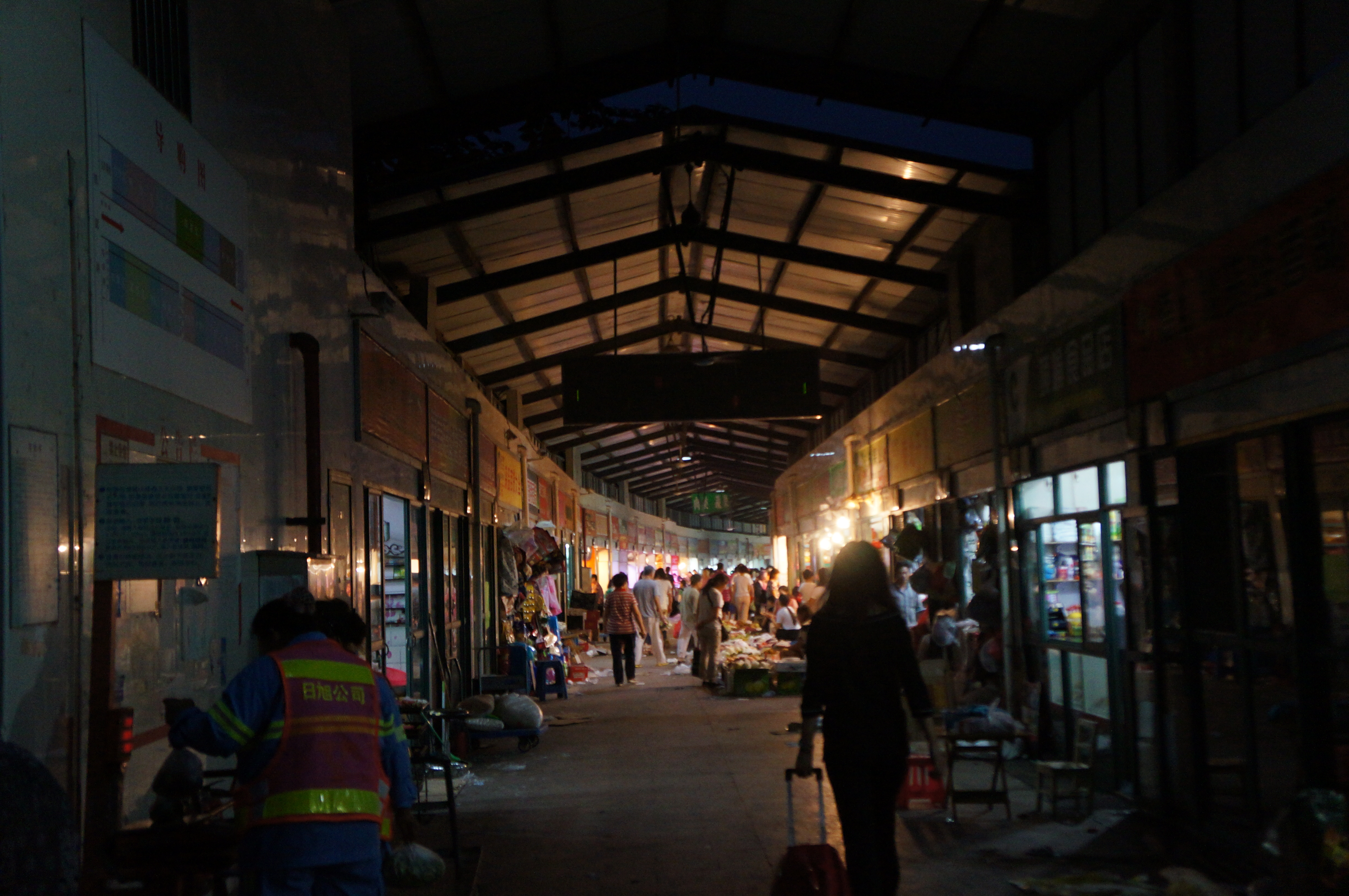 201609 Former Xujiahui–Hongqiao Railway near Xujiahui Railway Station, currently it is a local market.